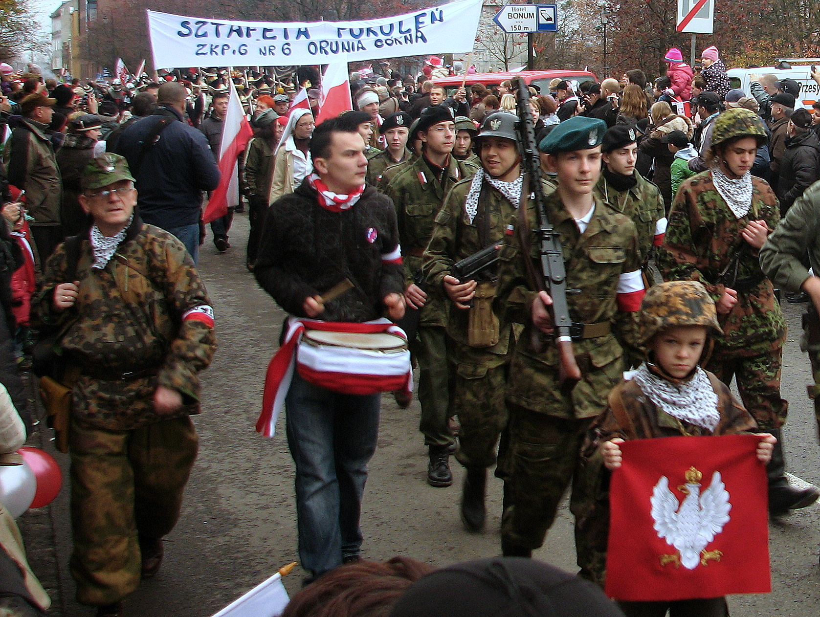 Parade of Independence in Gdańsk during Independence Day 2010. As usual at the Independence Day parade, participants wore patriotic or military-like costumes or drove special vehicles or decorated cars, all in remembrance of Poland’s painful and repeated defense of its independence.